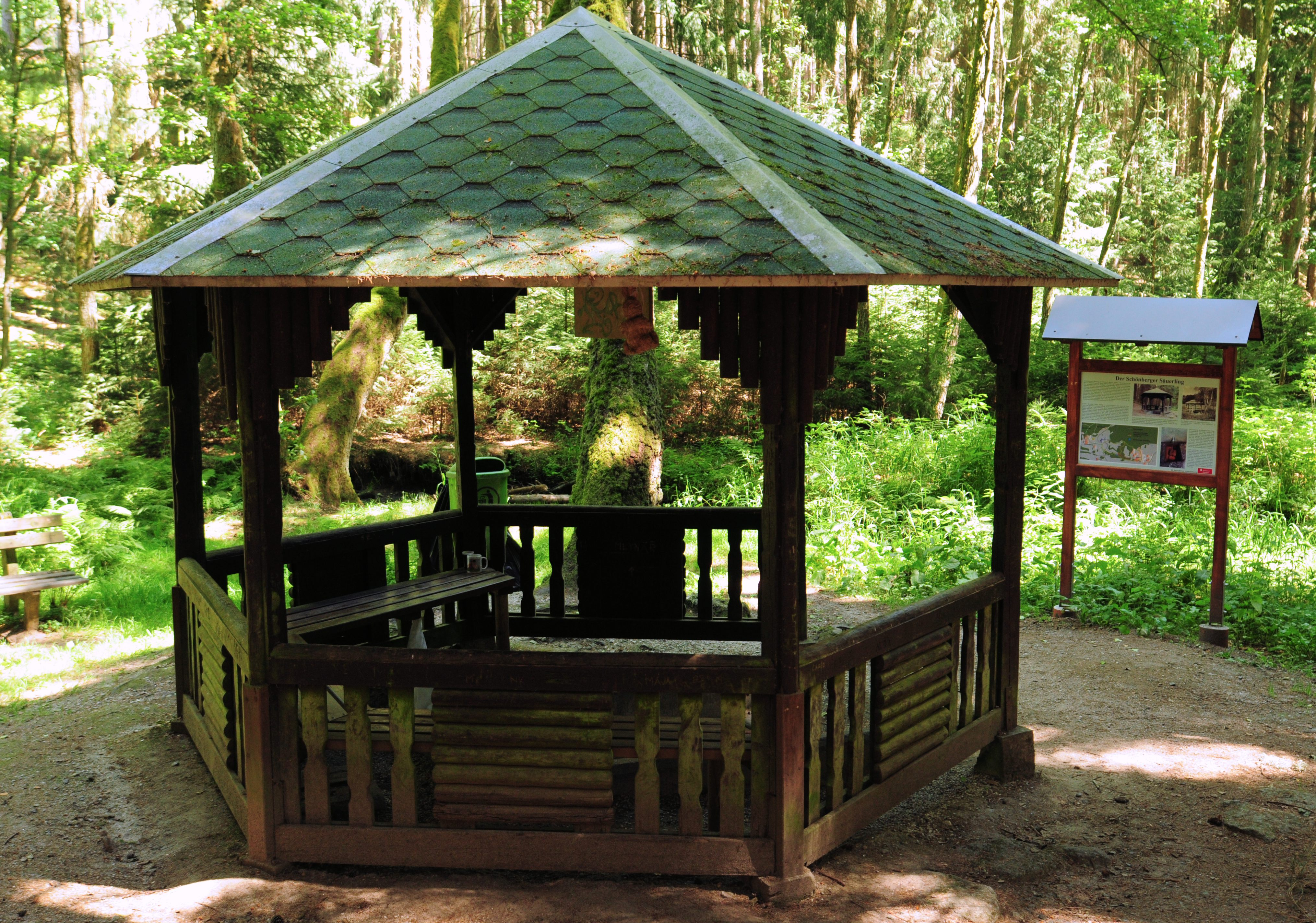 municipality of Bad Brambach, the mineral well Schönberger Säuerling near the village Schönberg am Kapellenberg (district Vogtlandkreis, Free State of Saxony, Germany)